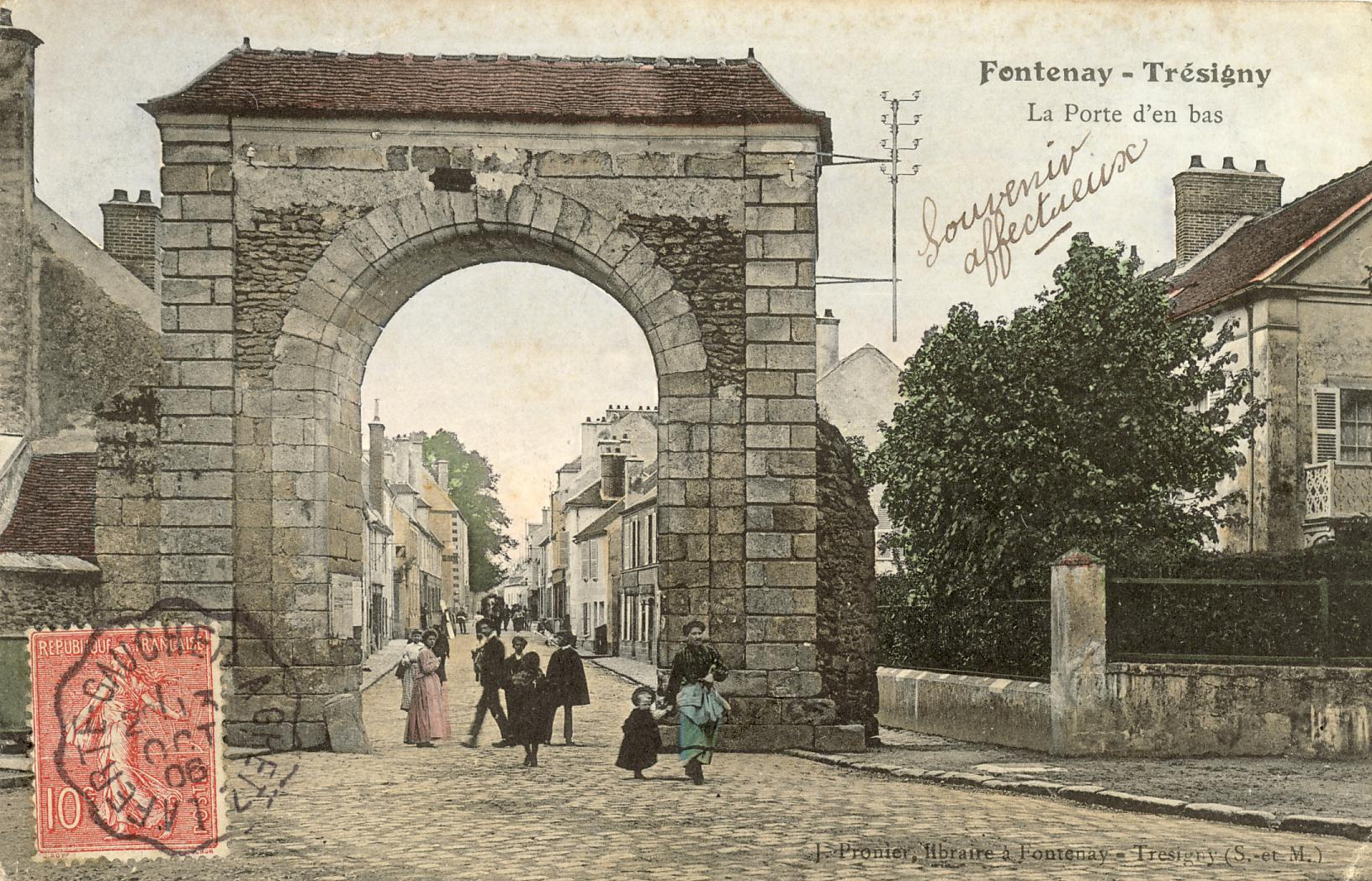 Fontenay-Trésigny La Porte d'en bas in 1906